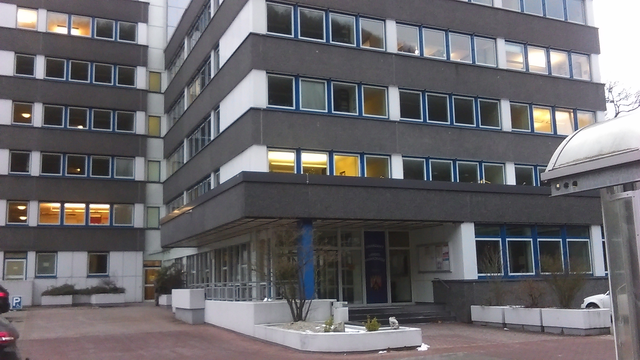 Tax office Idar-Oberstein